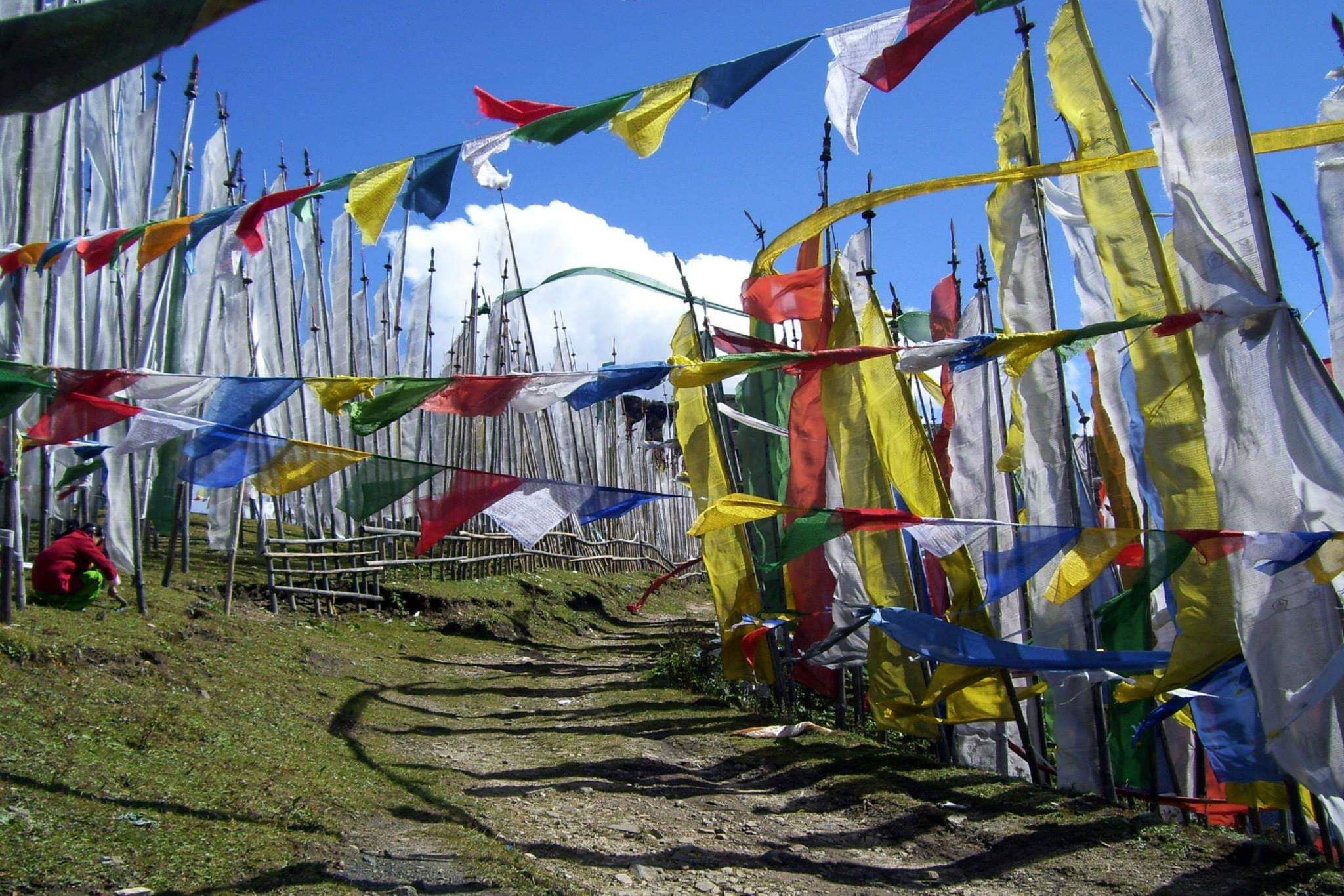 Prayer flags (Tibetan Buddhism)